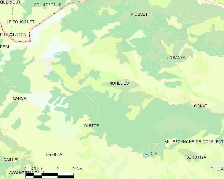 Map of French municipality